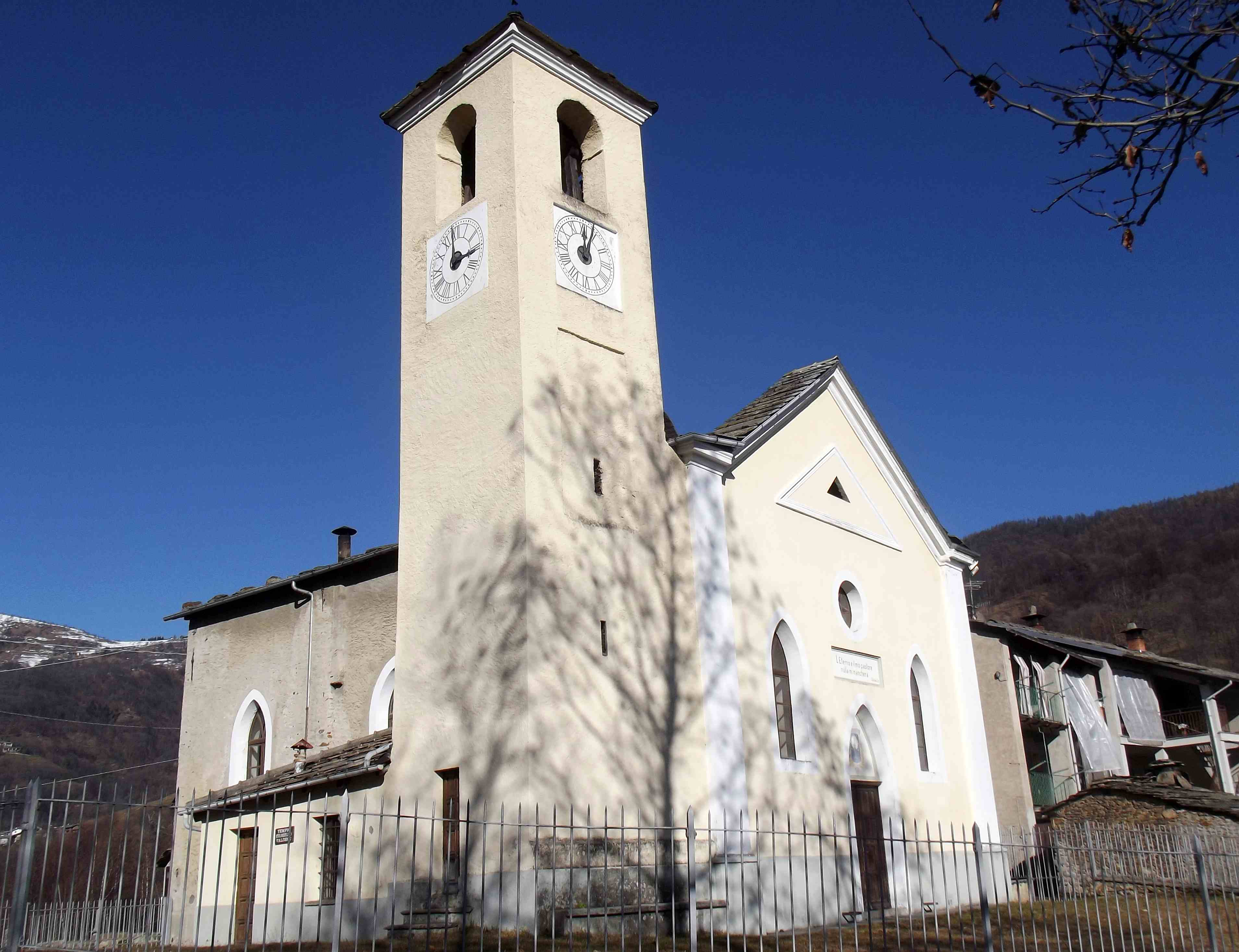 Angrogna (TO, Italy): waldesian church in frazione Serre